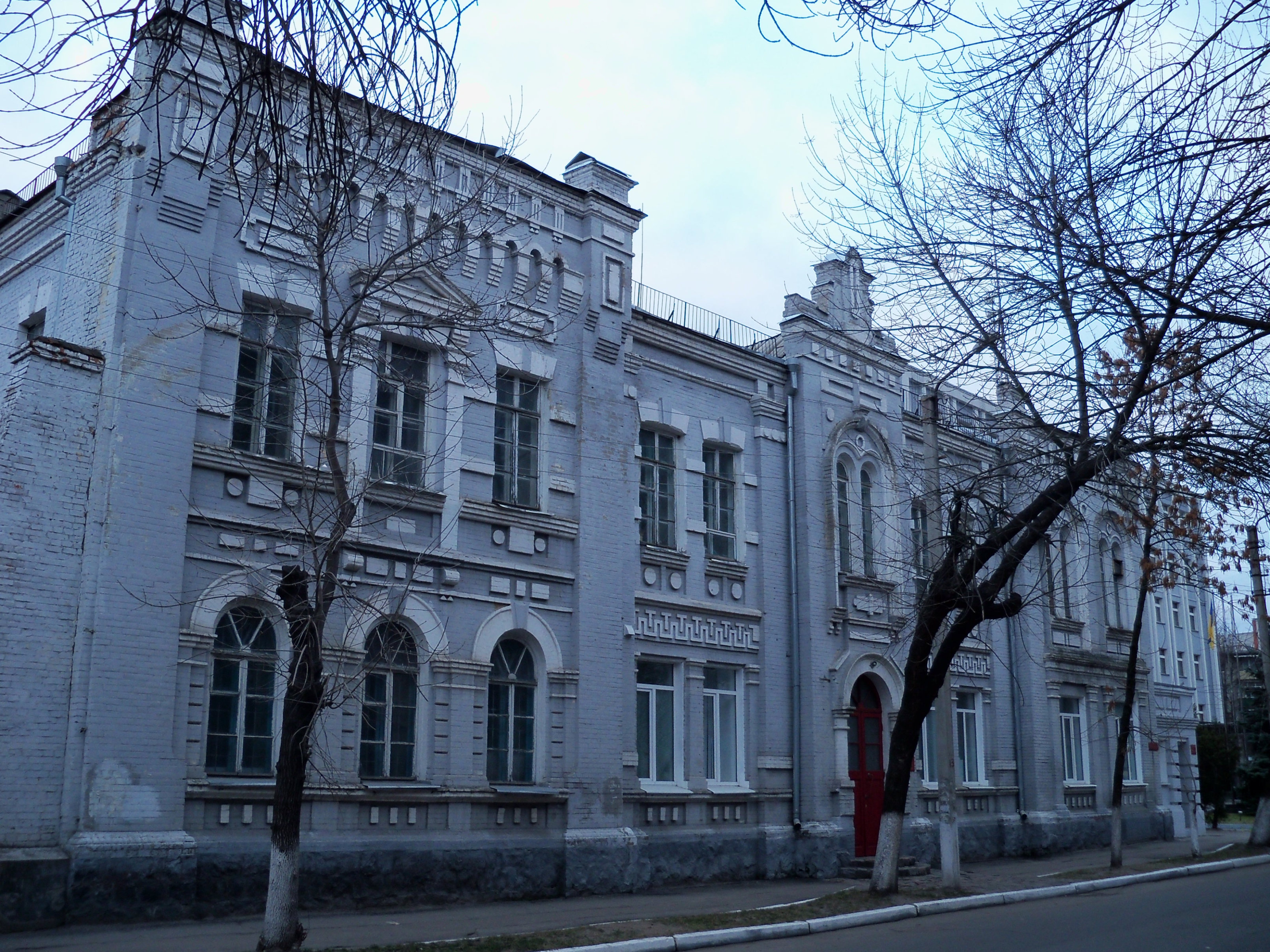 Historical building on Peremohy street, 40 in Kremenchuk